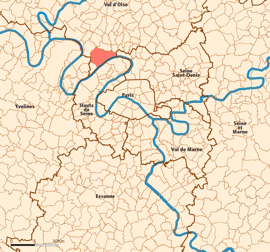 Created map myself.